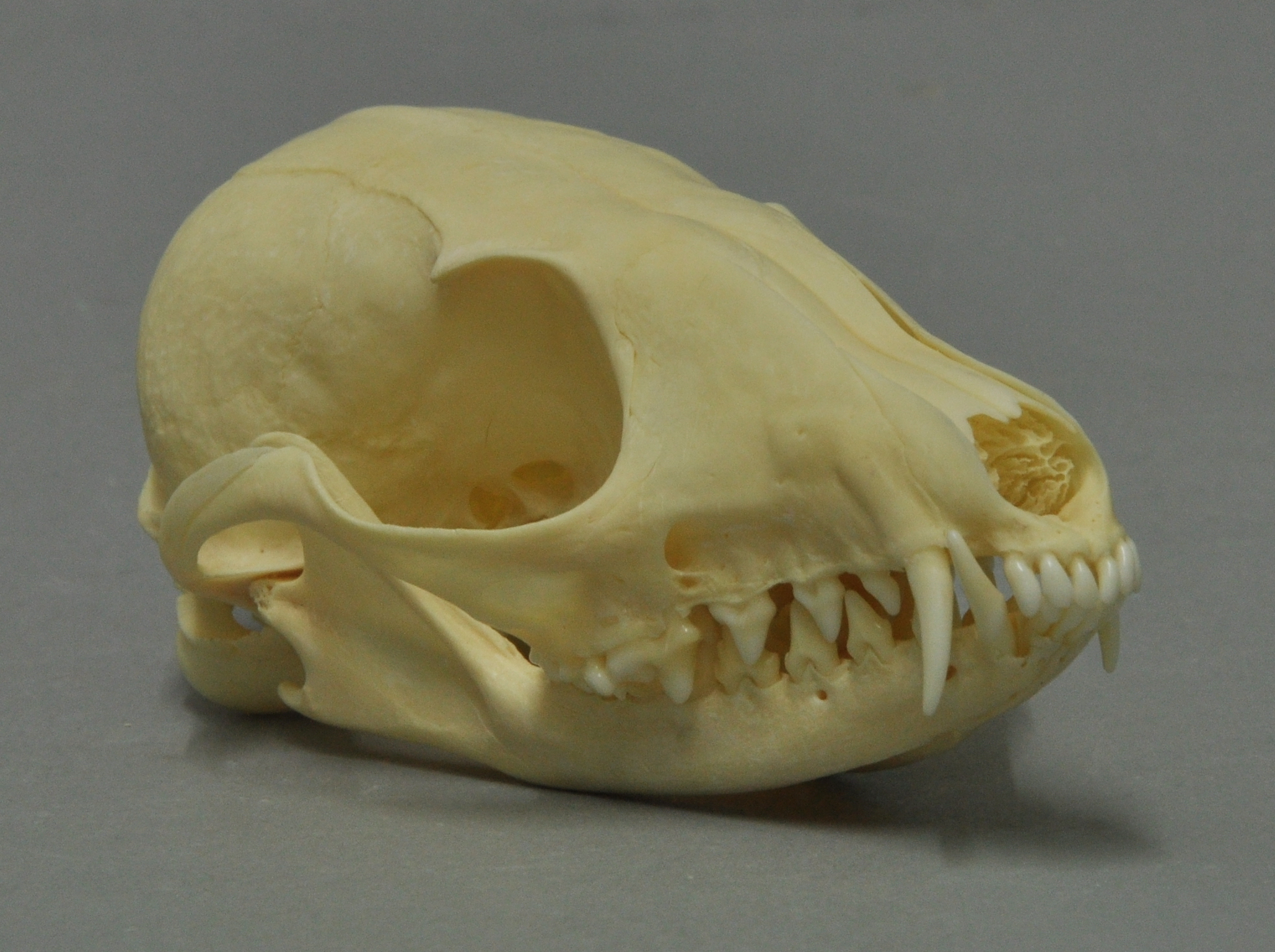 Fennec fox Fennecus zerda, skull, Coll. Museum Wiesbaden